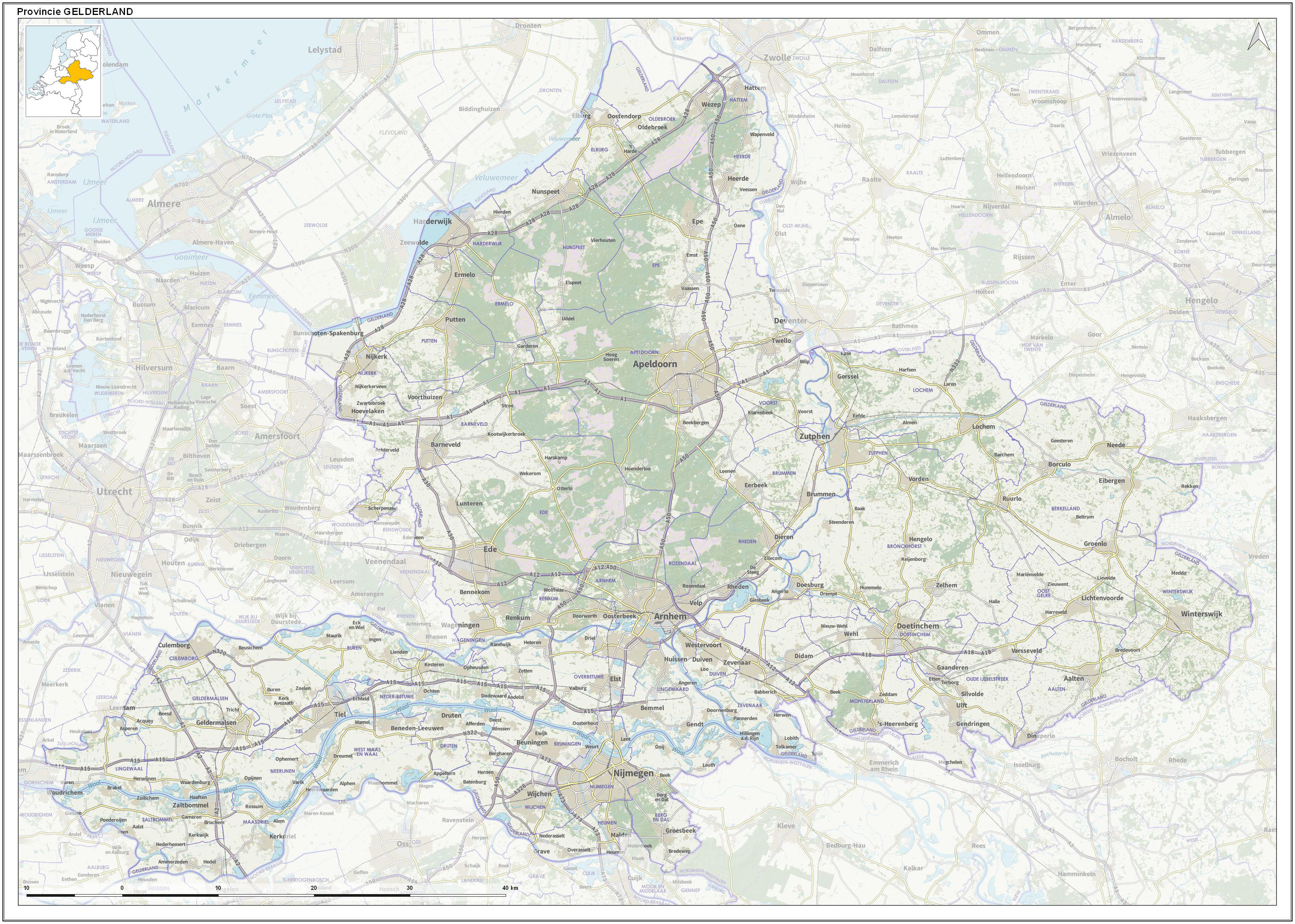 Toographic overview map of the Dutch Province of Gelderland as of 2018. Compiled by Jan-Willem van Aalst using Dutch Governmental open data (CC-BY Kadaster) and OpenStreetMap data (CC-BY OpenStreetMap contributors).